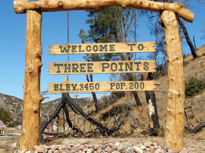 Welcome sign in Three Points, California, October 2008. Photo shows fire damage in background, probably from serious brush and forest fires early in 2008. Photo by George Garrigues.